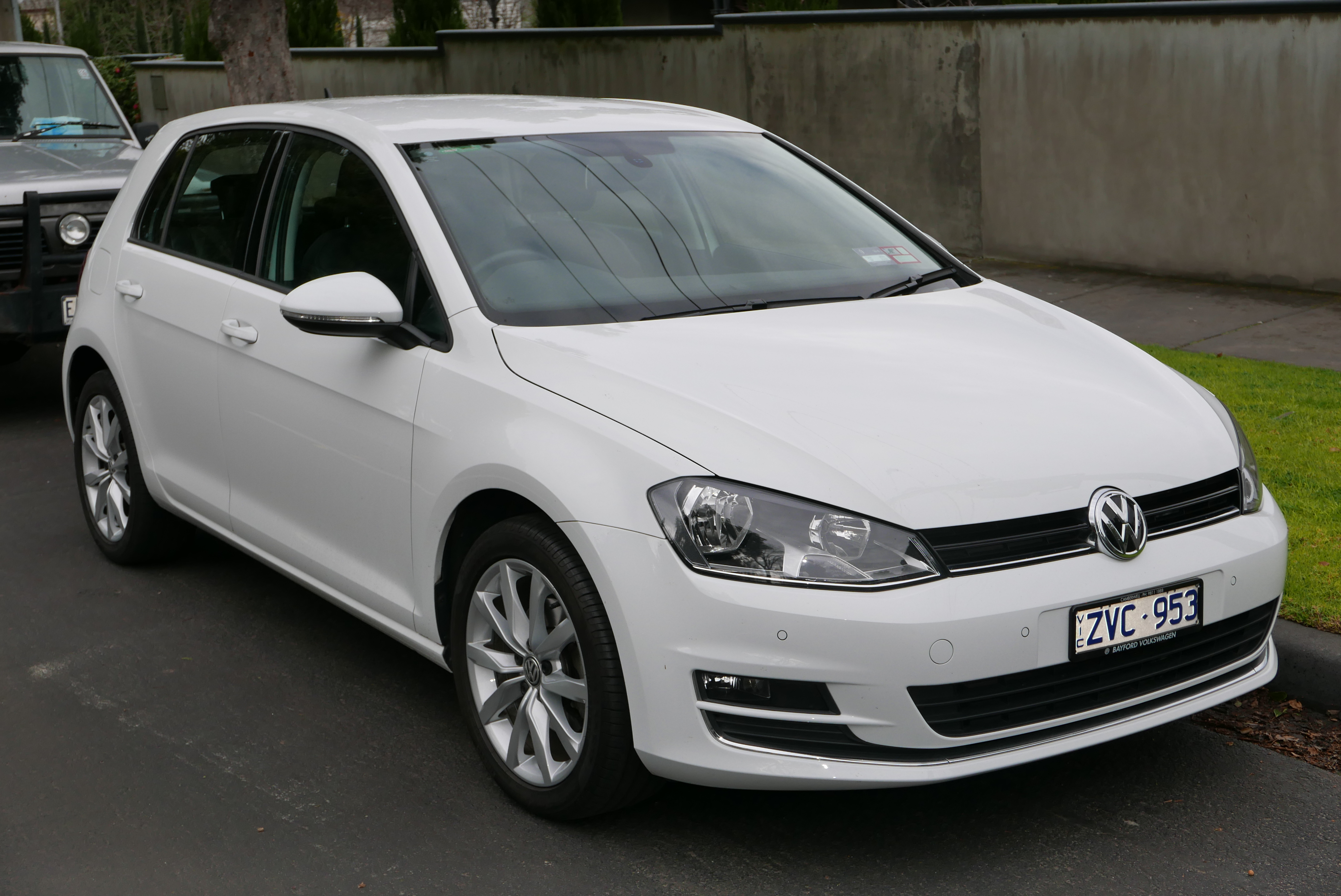 2013 Volkswagen Golf (5G MY13) 103TSI Highline 5-door hatchback. Photographed in Hawthorn East, Victoria, Australia. Vehicle registration enquiry resultsJurisdictionVictoriaRegistrationZVC953Chassis codeWVWZZZAUZDP069170Engine codeCHP005282Compliance date2013-07Year of manufacture2013